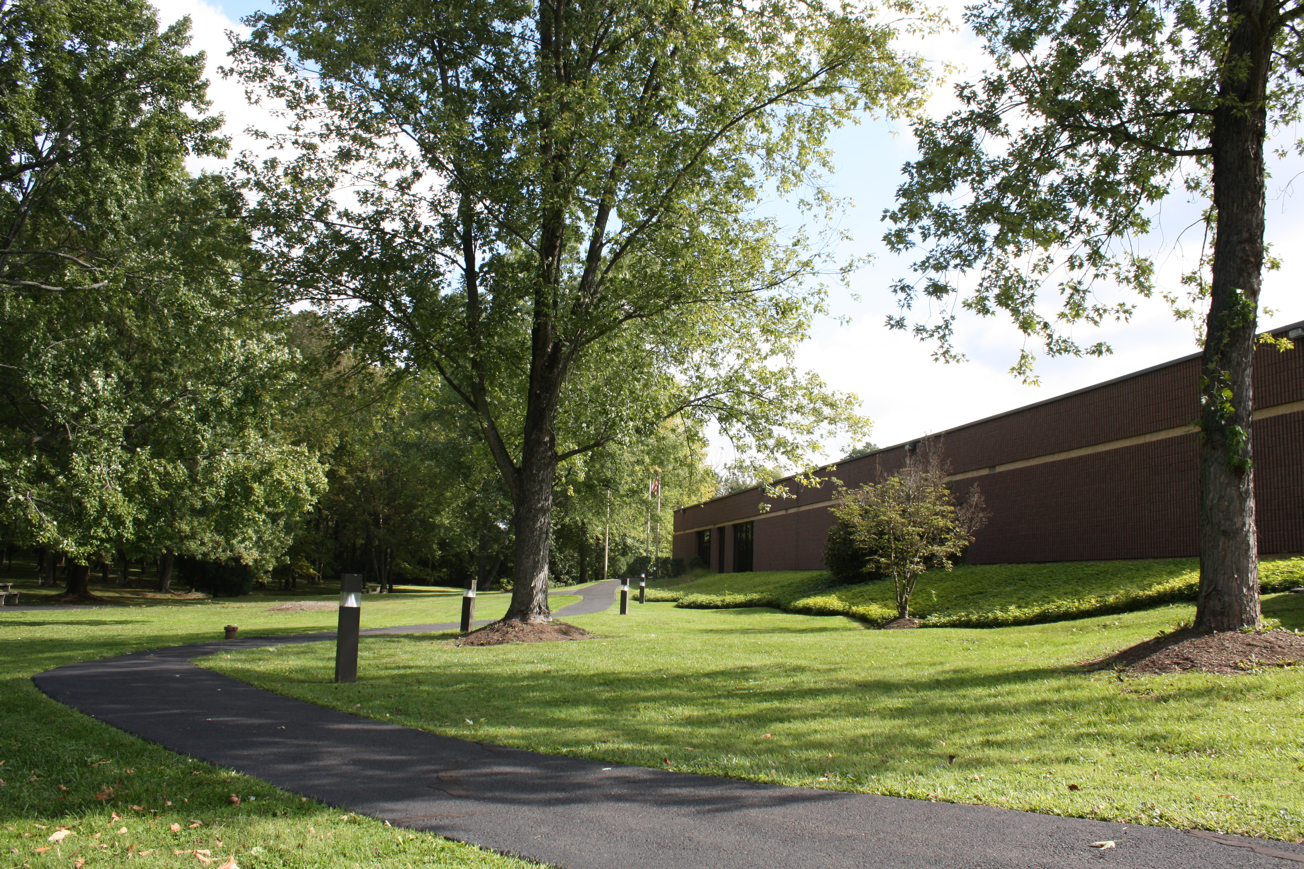 A picture, taken by ECRI Institute employee (Tara Kolb), of the ECRI Institute home office.